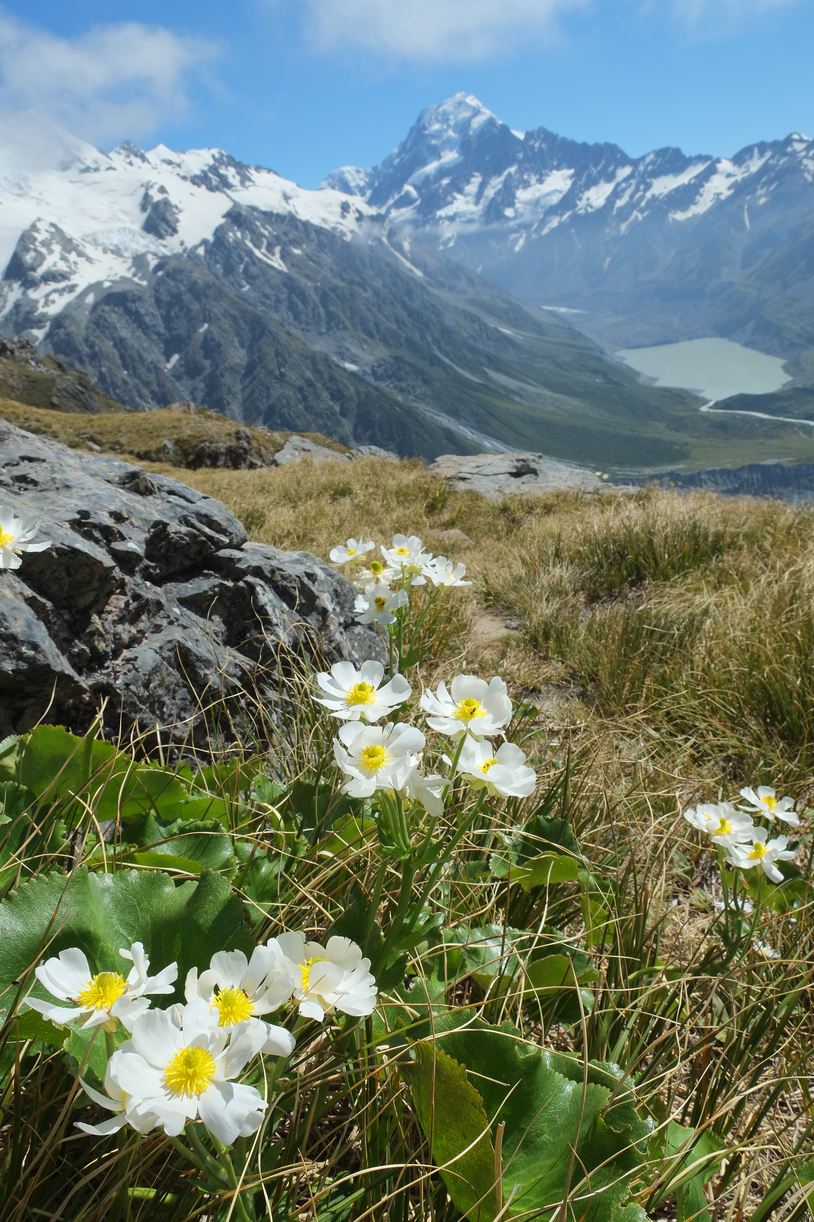 Mount Cook Buttercups (also known as Mount Cook lily) with Hooker Valley in the background